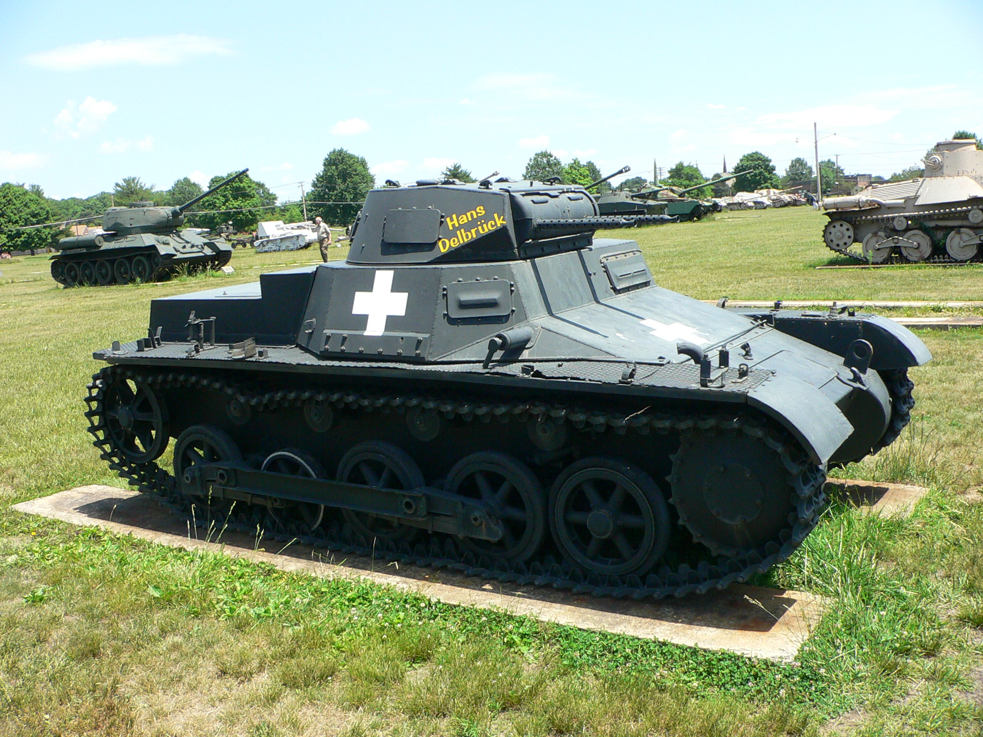 Picture taken by myself, Mark Pellegrini, at the United States Army Ordnance Museum (Aberdeen Proving Ground, MD) on June 12, 2007.